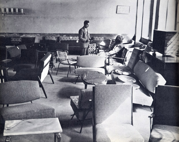 Original caption: "Furniture display room."